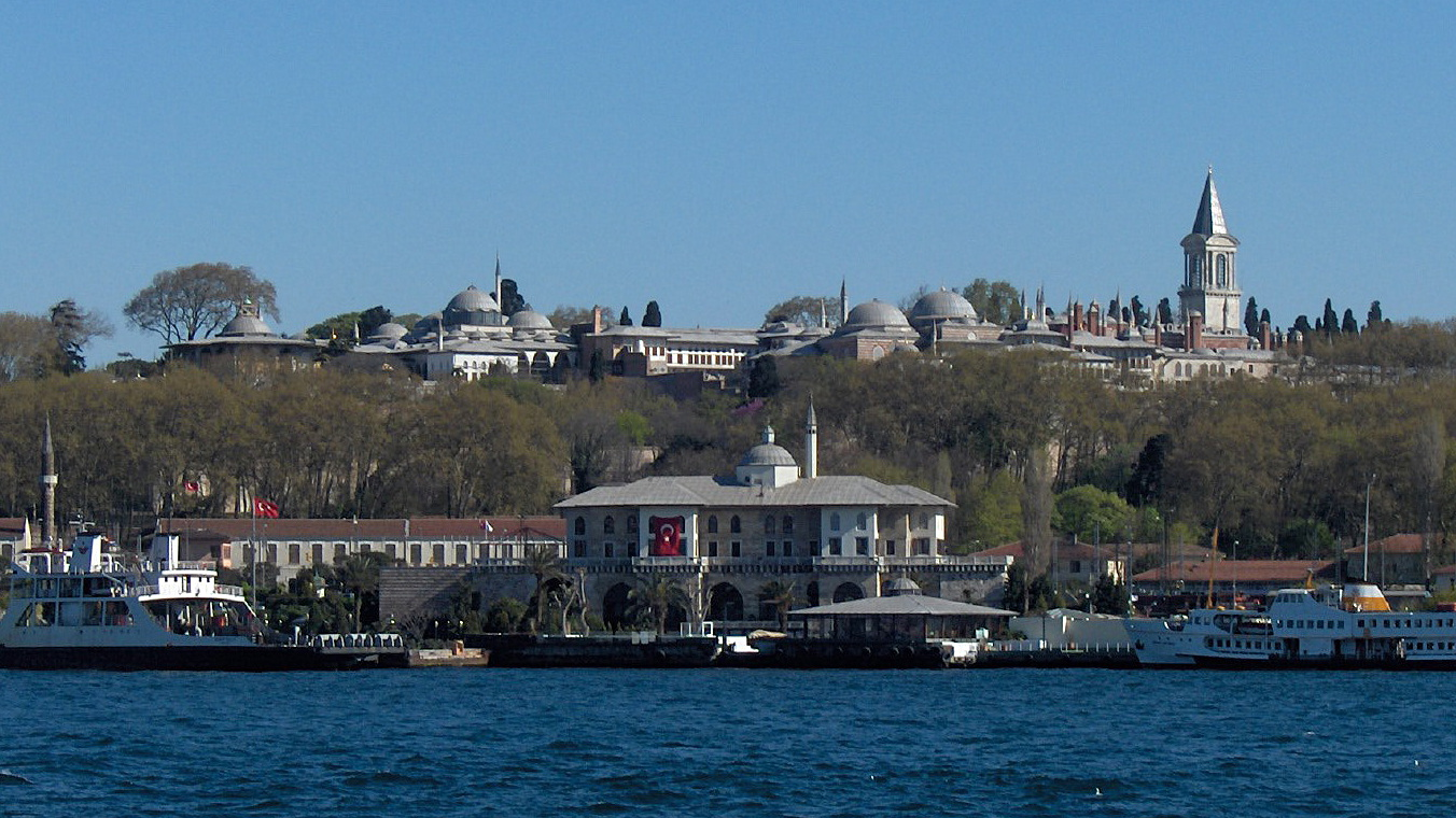 Topkapi Palace seen from the Bosphorus with Sepetçiler Palace in the foreground at the shore; Istanbul, Turkey